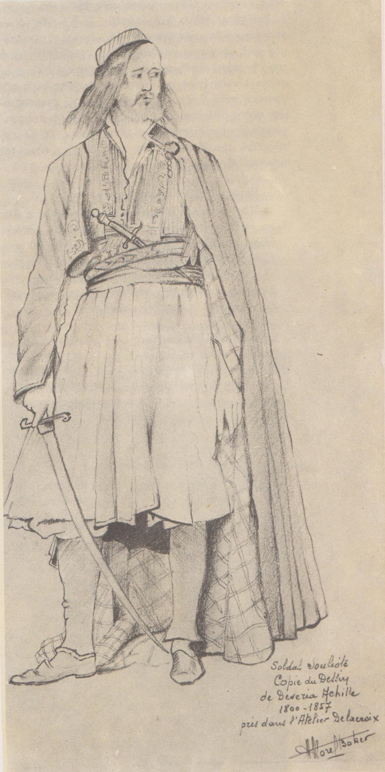 Souliotis